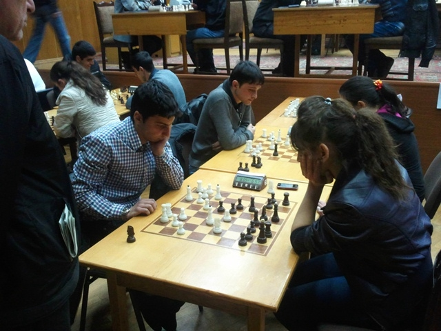 Команда ЕФ МЭСИ по шахматам